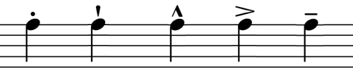 5 types of notation accents (articulation)